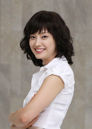 Lee Na Young, Korean actress.